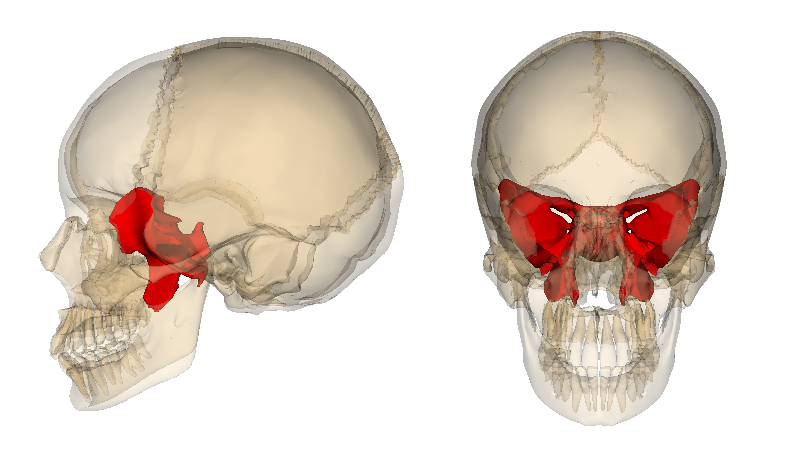 Sphenoid bone from Anatomography maintained by Life Science Databases(LSDB).